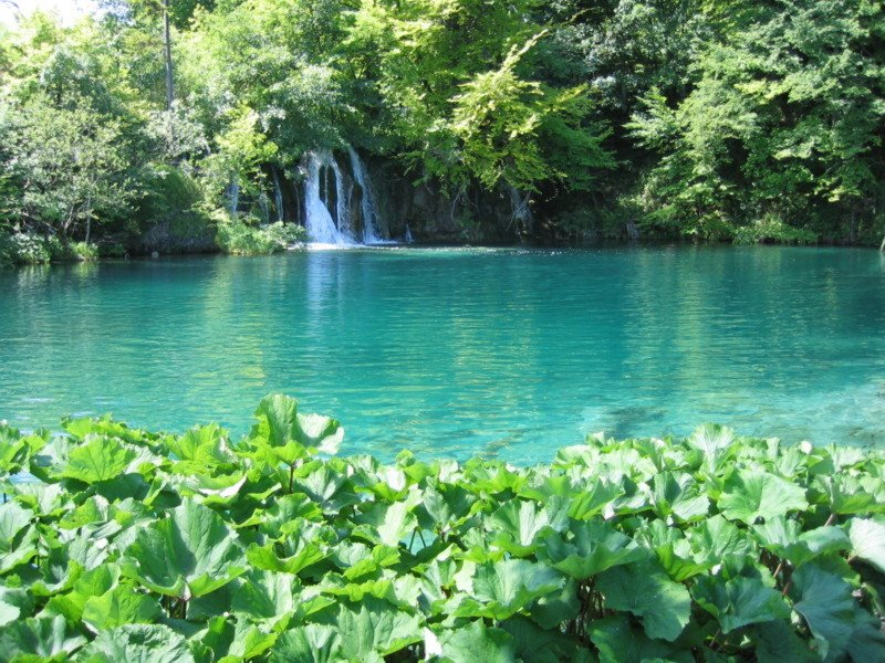 Plitvice nationalpark summer 2005. Picture: Tomi Nieminen